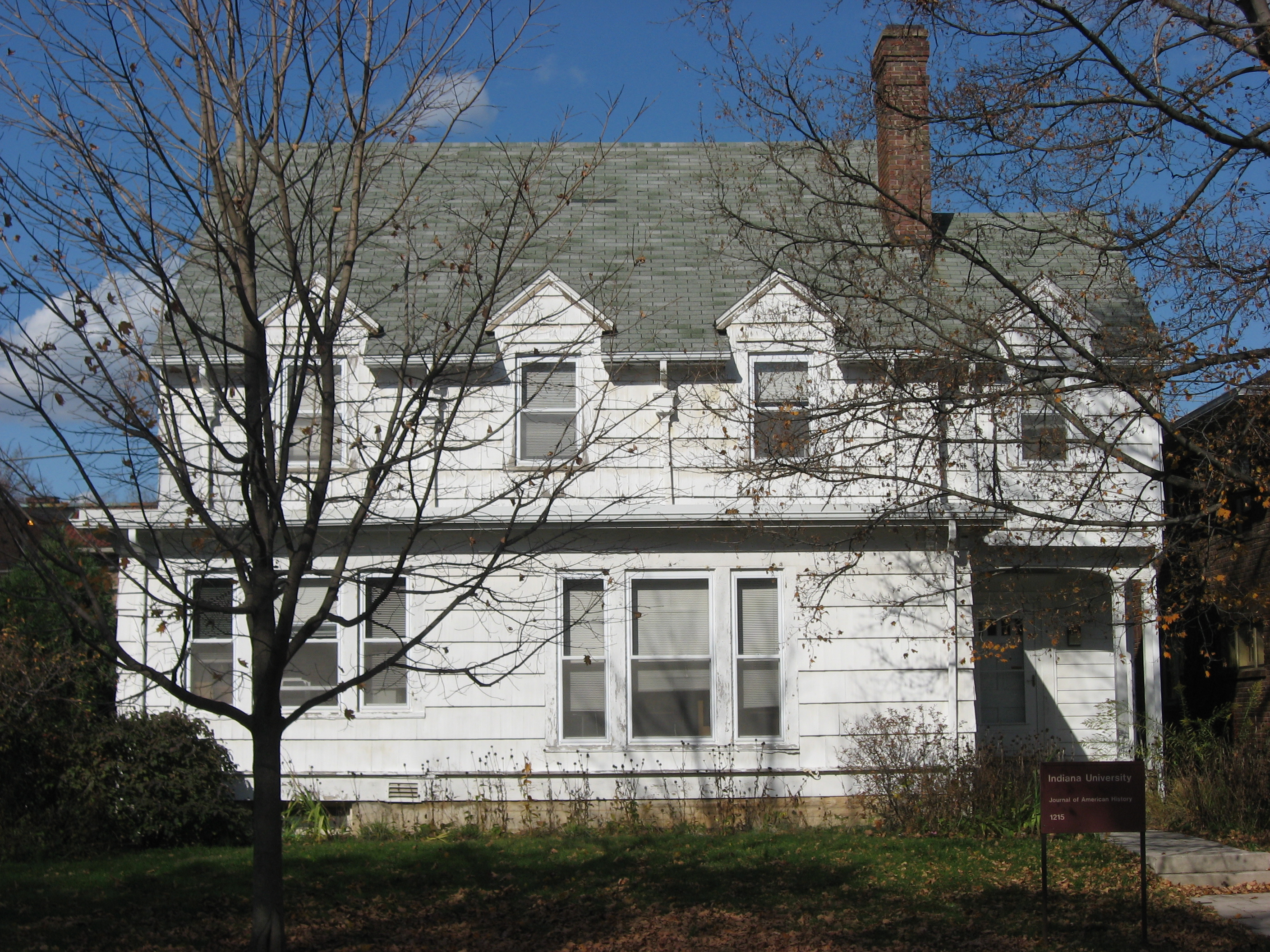 Front of the house located at 1215 E. Atwater Avenue in Bloomington, Indiana, United States. No longer a residence, it serves as the editorial offices of The Journal of American History. Built in 1920, it is part of the locally-designated Elm Heights Historic District.